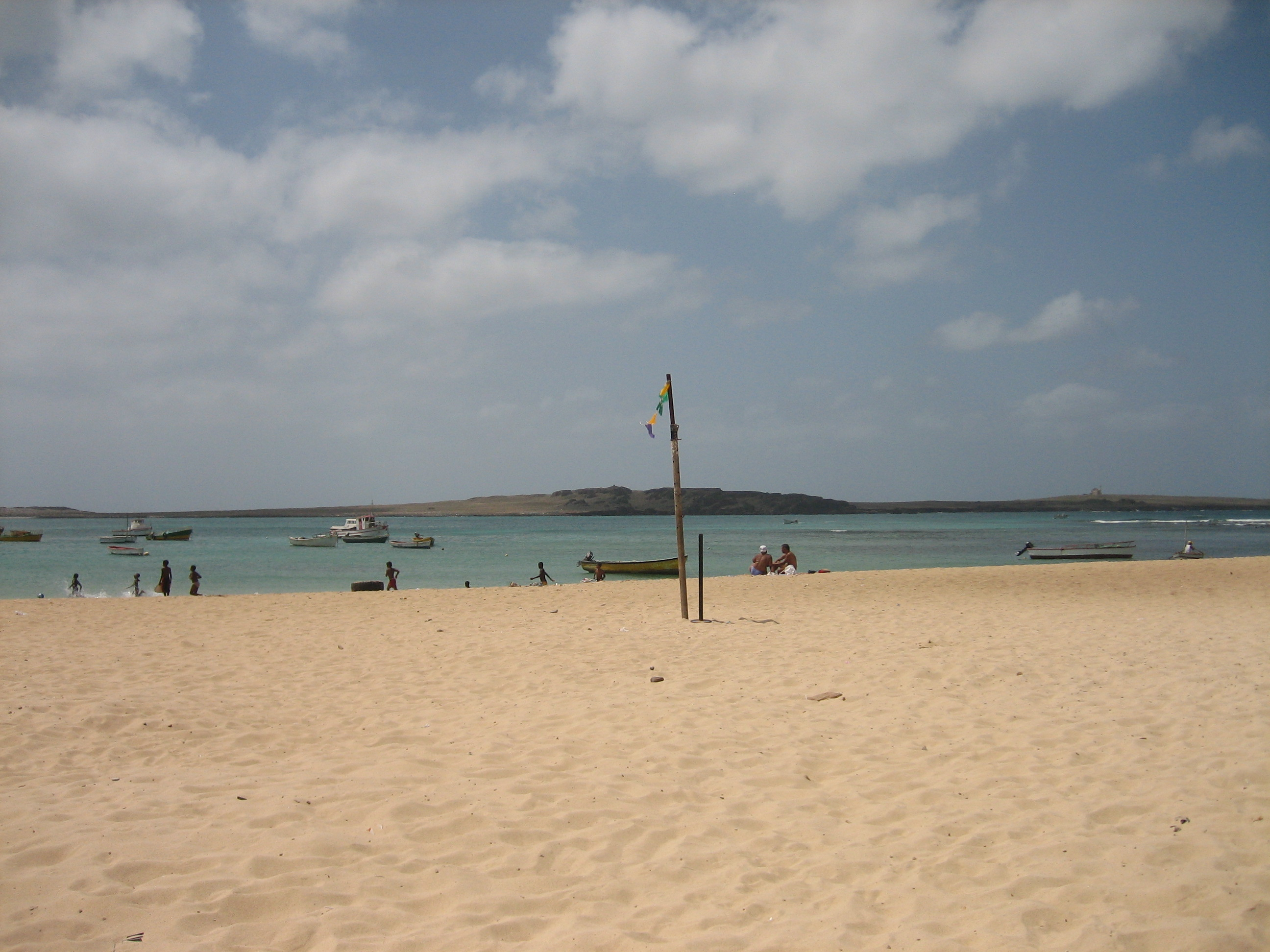 Sand beach near to the old port of Sal Rei on the island of Boa Vista, Cape Verde. In the back, the coast line of Ilhéu de Sal Rei can be seen.